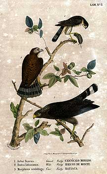 Plate from Aves de la Isla de Cuba , by Juan Lembeye, depicting cuban hawks. Havana: Imprenta del Tiempo, 1850.